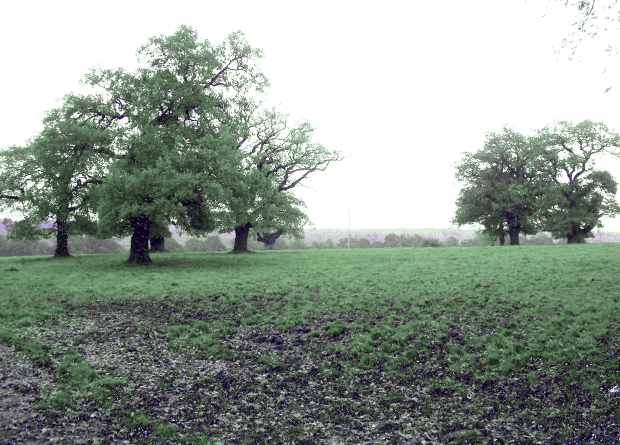 Huge old oak trees from ancient forest meadows on pasture at Beberbeck south of the nature reserve "Urwald Sababurg", Reinhardswald north of Kassel, Hessen, Germany